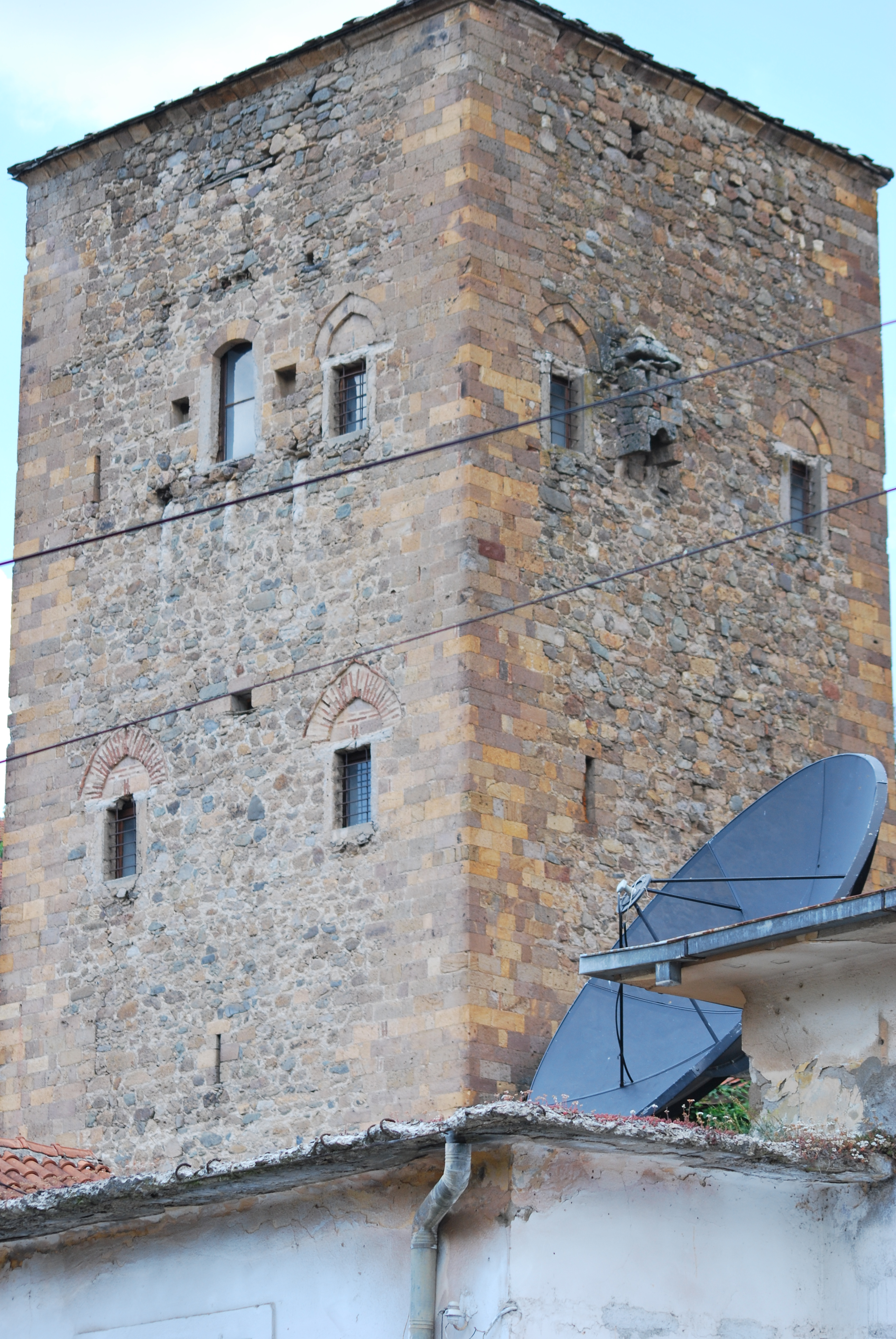 Kratovo, Macedonia